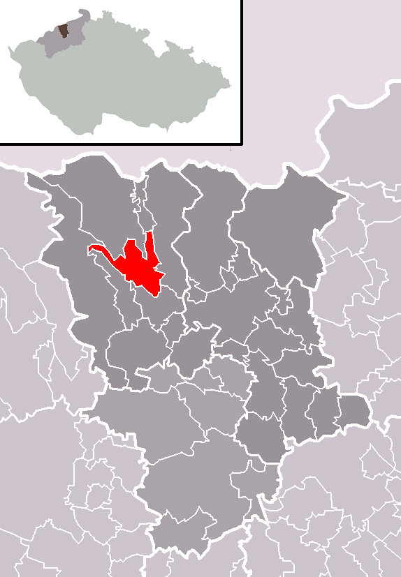 Location of Hrob town within Teplice District and administrative area of Teplice as a Municipality with Extended Competence.